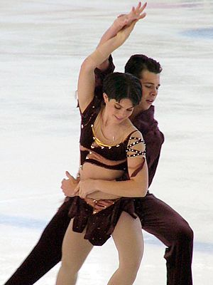 Brittany Vise and Nicholas Kole during their free skate at the 2004 Junior Grand Prix event in Germany